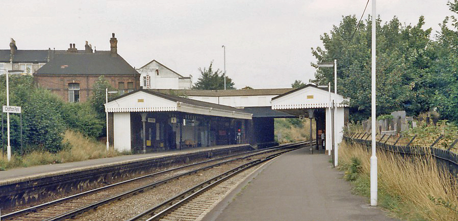 Crofton Park station. View NW, towards London (Victoria or Holborn Viaduct): ex-SE&C (Chatham section) Catford Loop line (Nunhead - Shortlands), normally taken by suburban services but also by Kent Coast and Continental expresses at busy times.